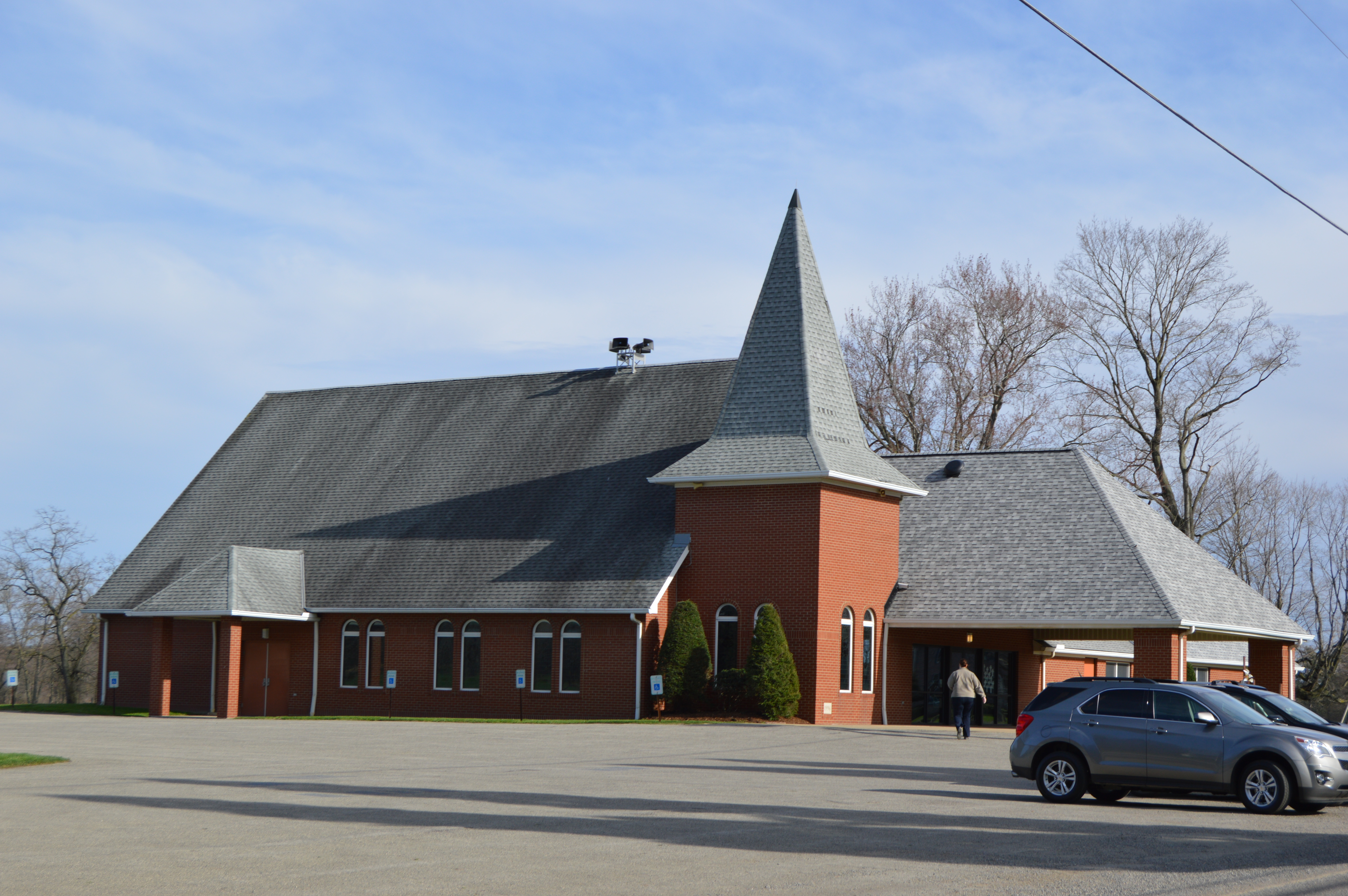 Northern side and front of the Plain Grove Presbyterian Church, located at 626 Plain Grove Road at Plain Grove in Plain Grove Township, Lawrence County, Pennsylvania, United States.